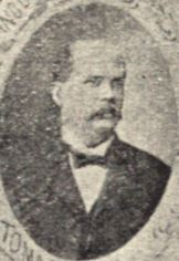 Tomás Arias